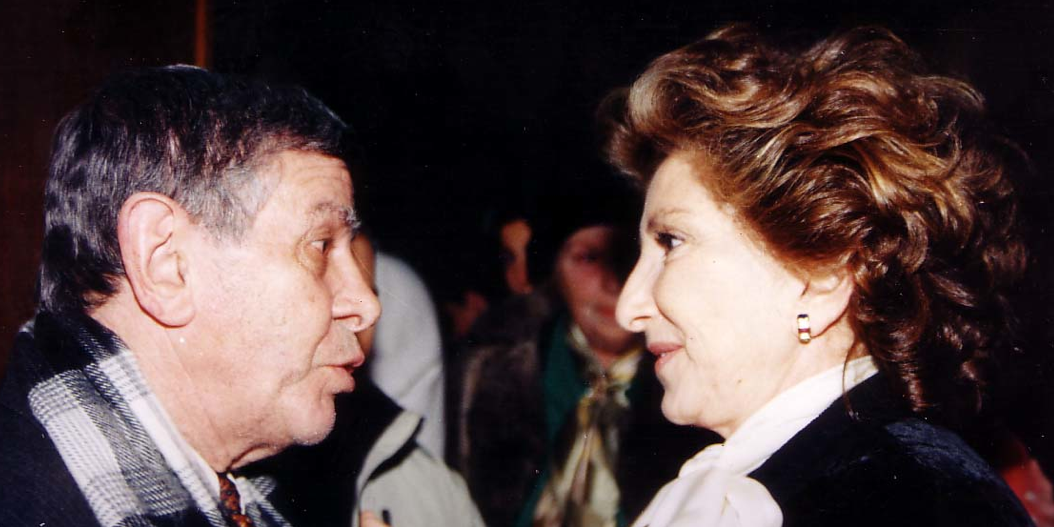 Francisco Rinaldi chating with Norma Aleandro